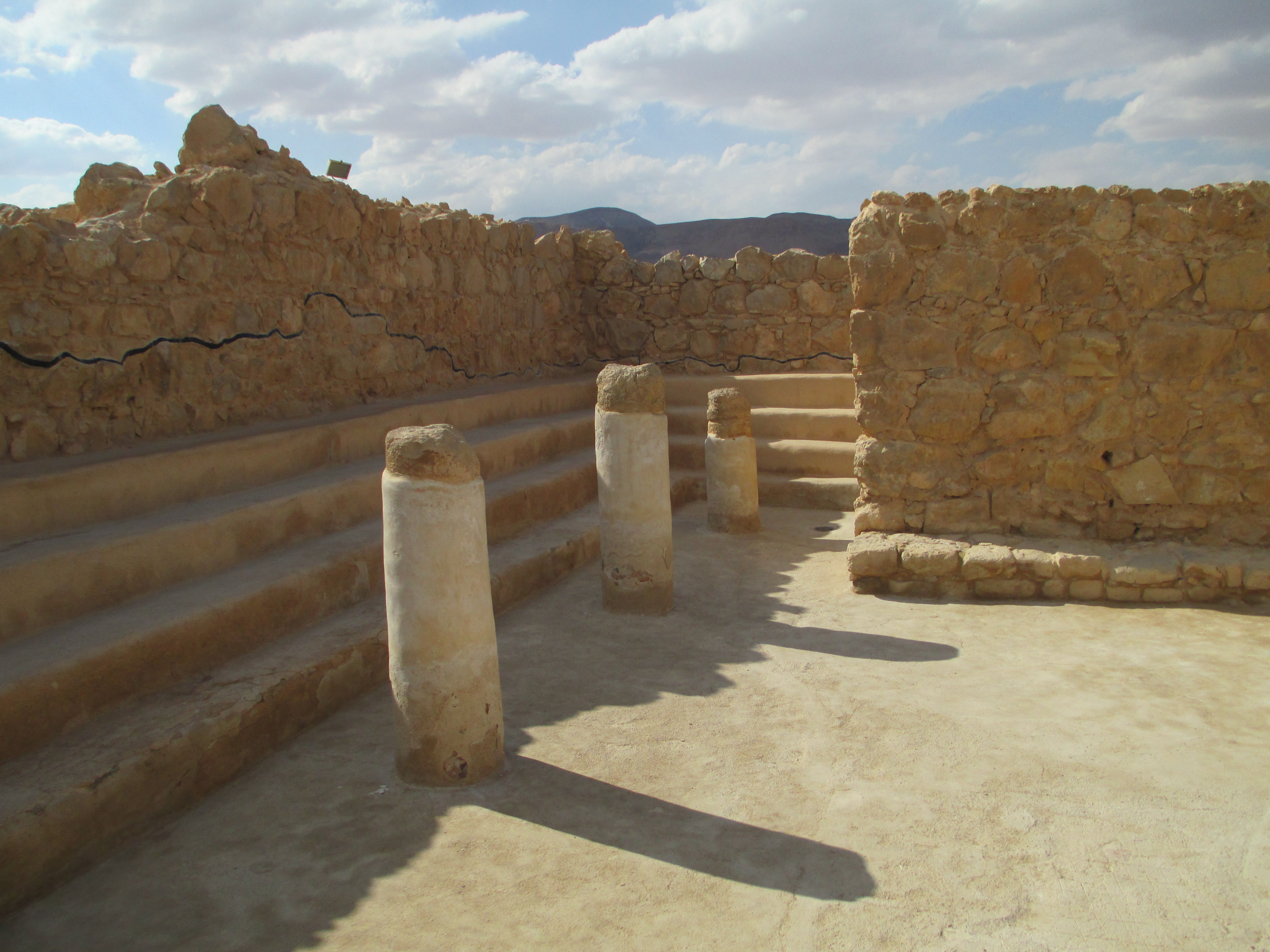 The synagogue in Masada